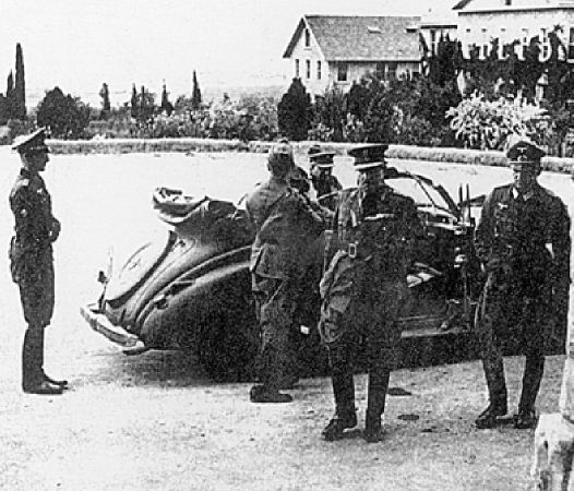 Greek general Georgios Tsolakoglou arrives at Macedonia Hall, Anatolia College, in Thessaloniki, in April 1941 to sign the surrender of the Greek Army in Epirus.